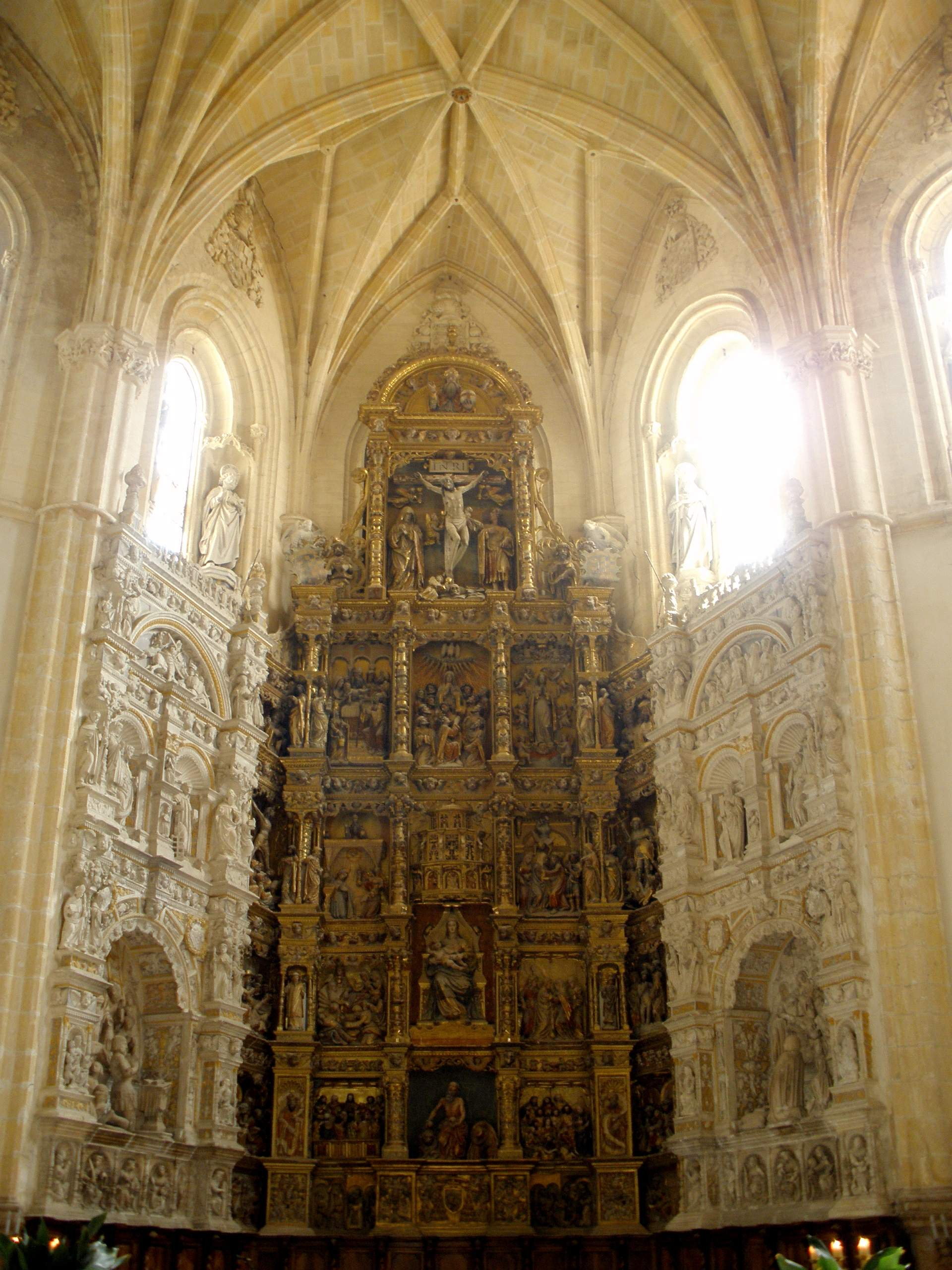 Retablo mayor del Monasterio de Santa Maria del Parral (Segovia)